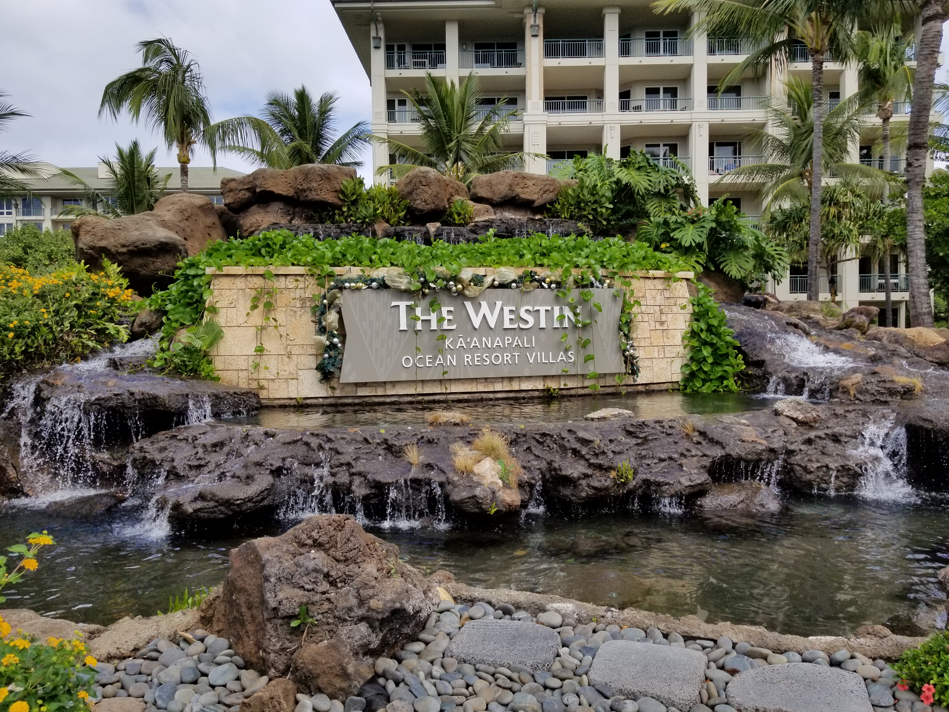 The Westin Ka'anapali Ocean Resort Villas main entrance sign.